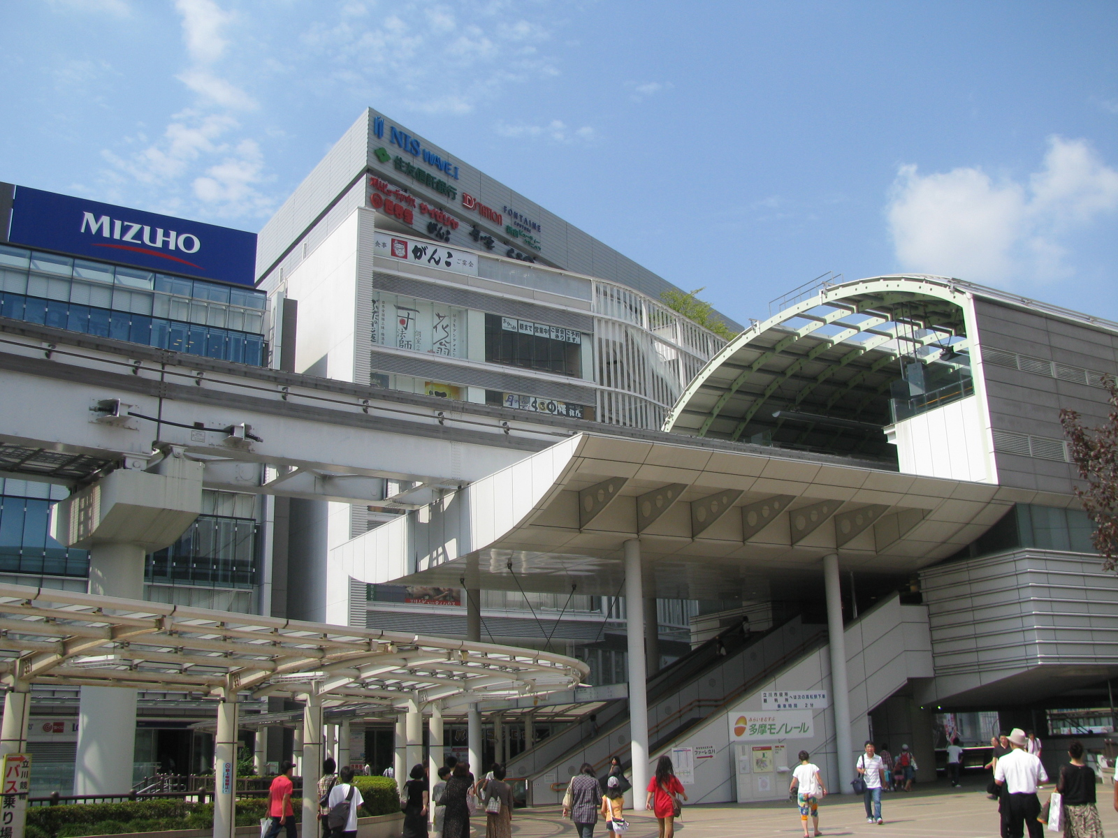 Tachikawa-Kita Station on the Tama Intercity Monorail Line in Akebonocho, Tachikawa, Tokyo